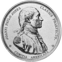 Etching of Congressional Gold Medal awarded to John Paul Jones, medal authorized by Congress October 16, 1787, presented to Jones date unknown